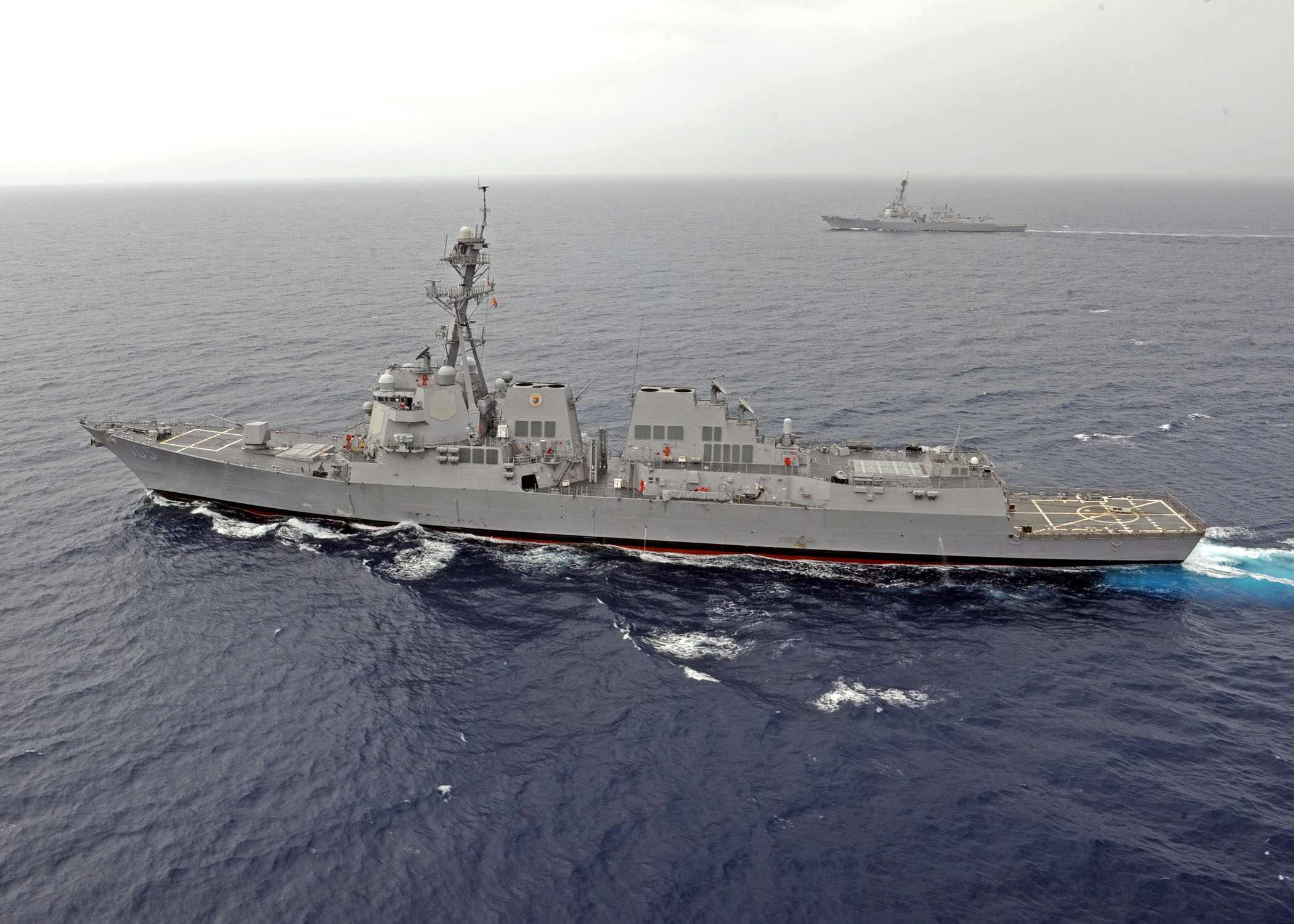 SOUTH CHINA SEA (Oct. 5, 2011) The guided-missile destroyers USS Dewey (DDG 105), front, and USS Pinckney (DDG 91) transit together during Cooperation Afloat Readiness and Training (CARAT) Brunei 2011. CARAT is a series of bilateral exercises held annually in Southeast Asia to strengthen relationships and enhance force readiness. (U.S. Navy photo by Mass Communication Specialist 3rd Class Joshua Keim/Released)